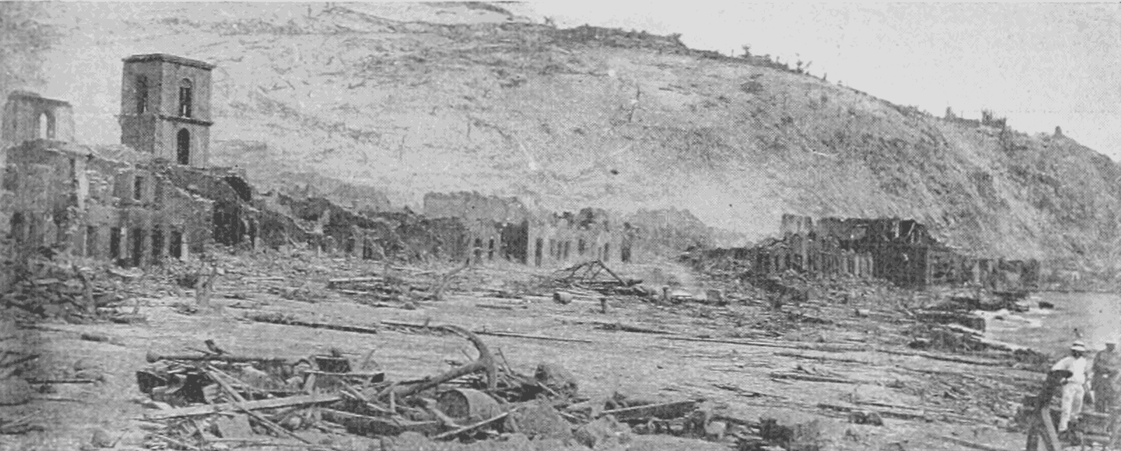 St Pierre view after the eruption of May 8 1902